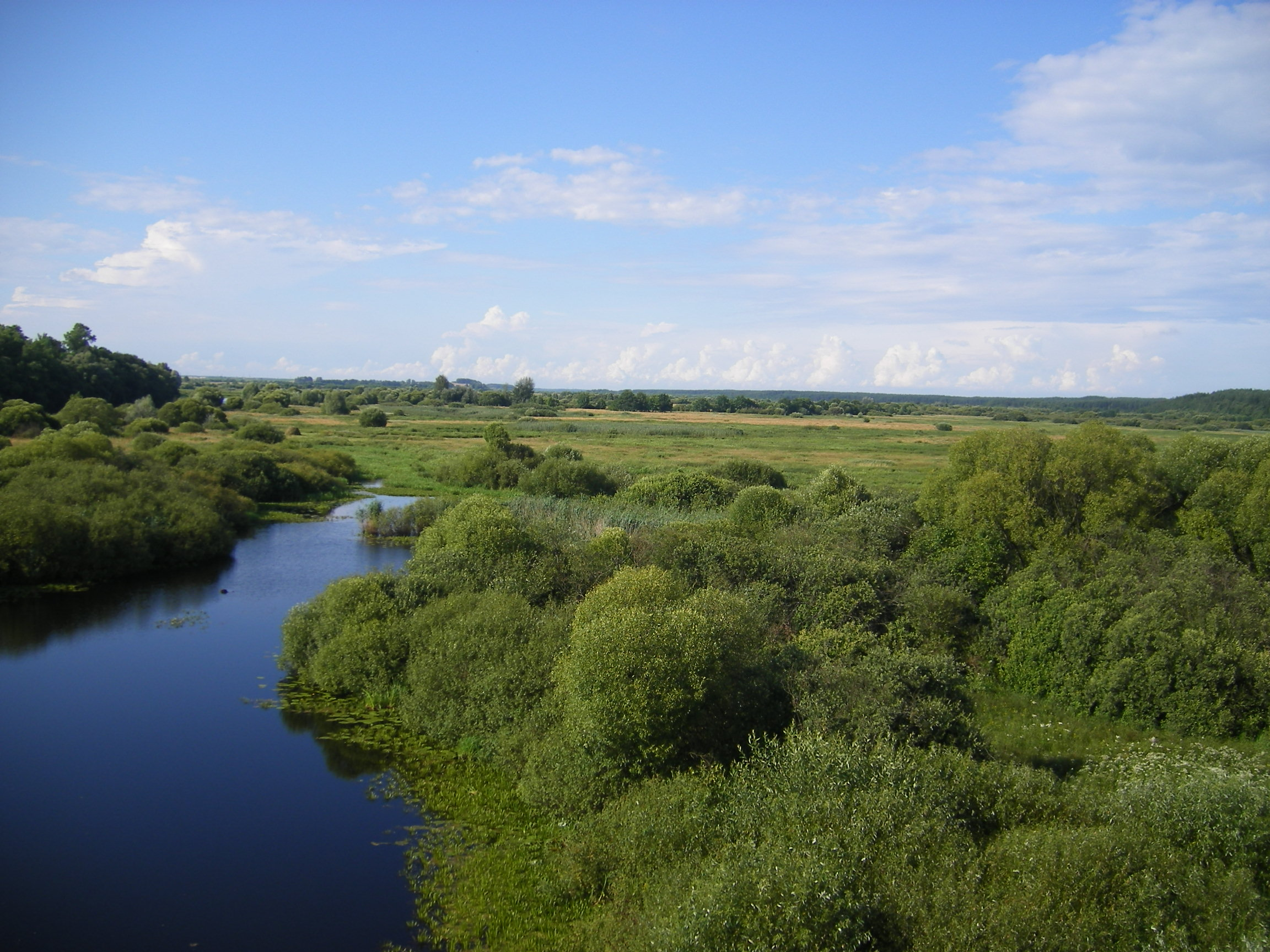 The Besedz River in Svetilovichi, Vetka Raion, Homel Oblast